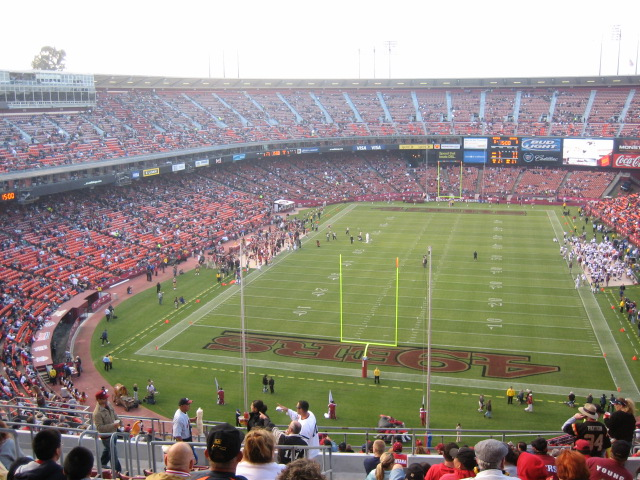 Monster Park, San Francisco, before a 49ers/Bears preseason game August 11, 2006. 08:17, 20 December 2006 . . Fds527 . . 640×480 (155,188 bytes)